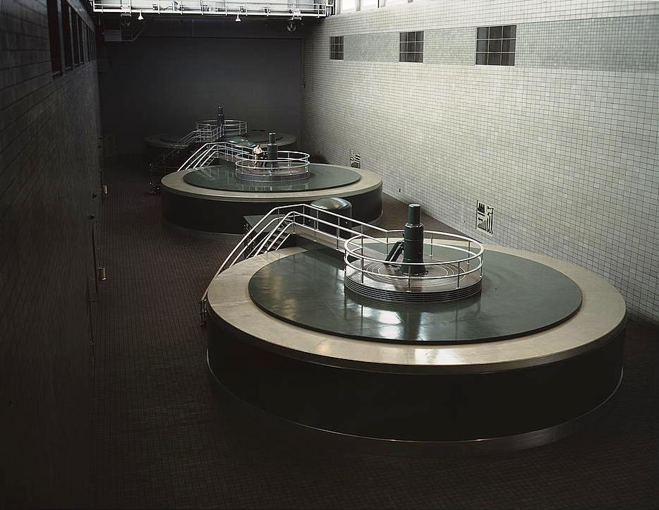 Generator hall of the powerhouse, Chickamauga Dam, Tennessee, USA Original caption: The dam, located near Chattanooga, 471 miles above the mouth of the Tennessee River, has an authorized power installation of 81,000 kw., which can be increased to a possible ultimate of 108,000 kw. The reservoir at the dam adds 377,000 acre-feet of water to controlled storage on the Tennessee River system. The power that goes out over its 154,000 volt transmission line serves many useful domestic, agricultural and industrial uses.